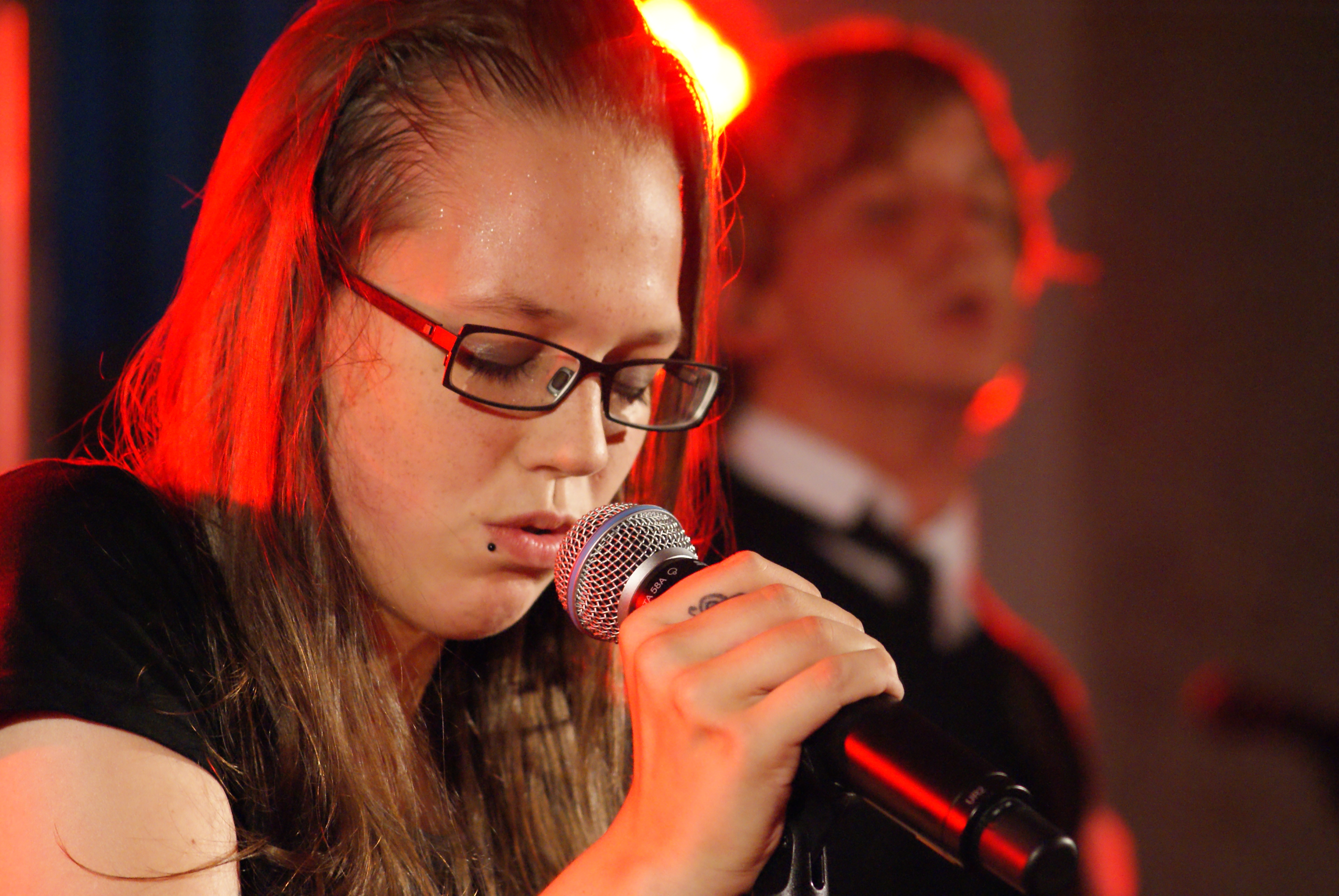 Stefanie Heinzmann live 2009